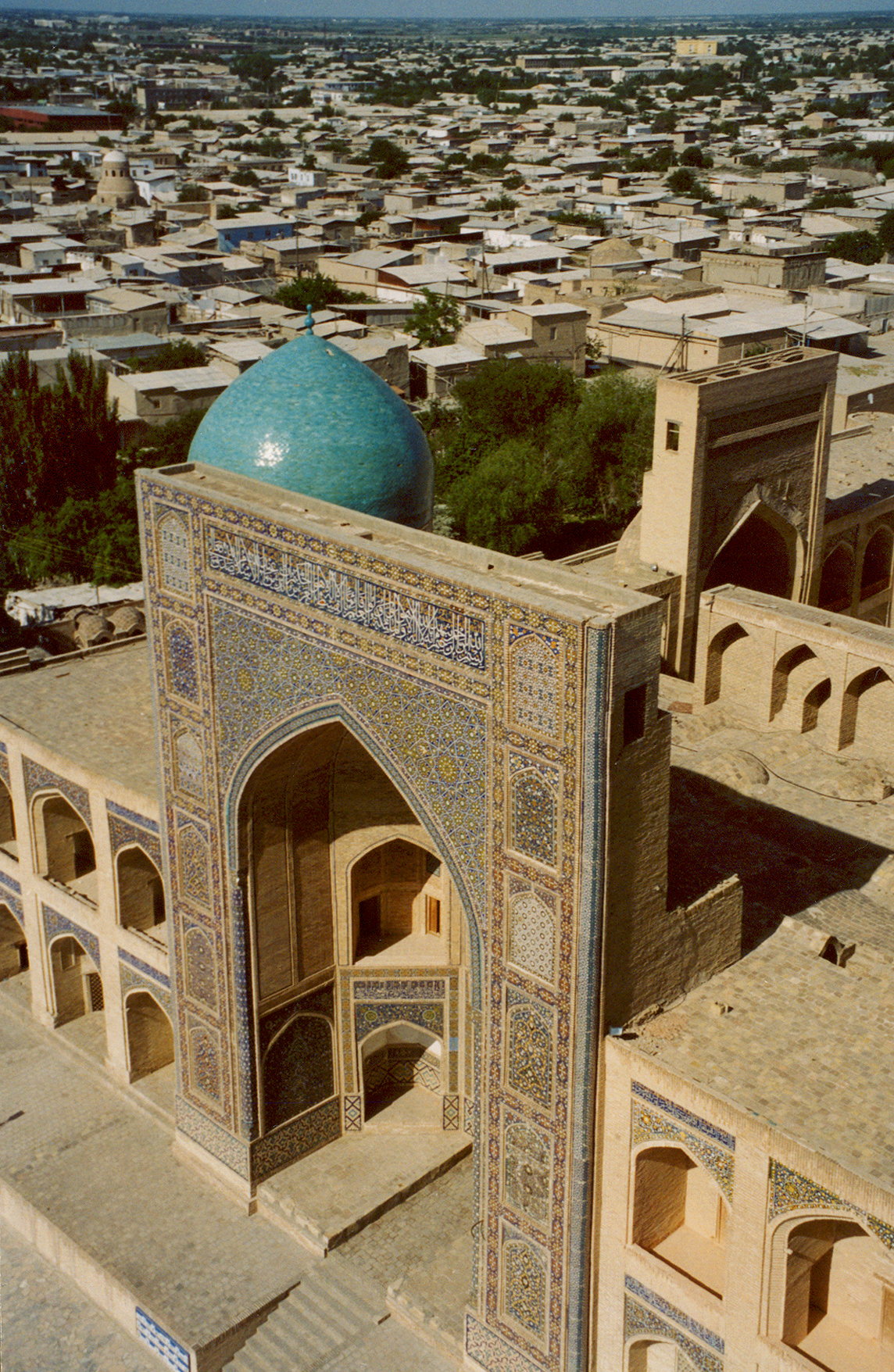 Miri Arab madressah in Bukhara. Photo by Anatoly Terentiev, 7 May 2003.